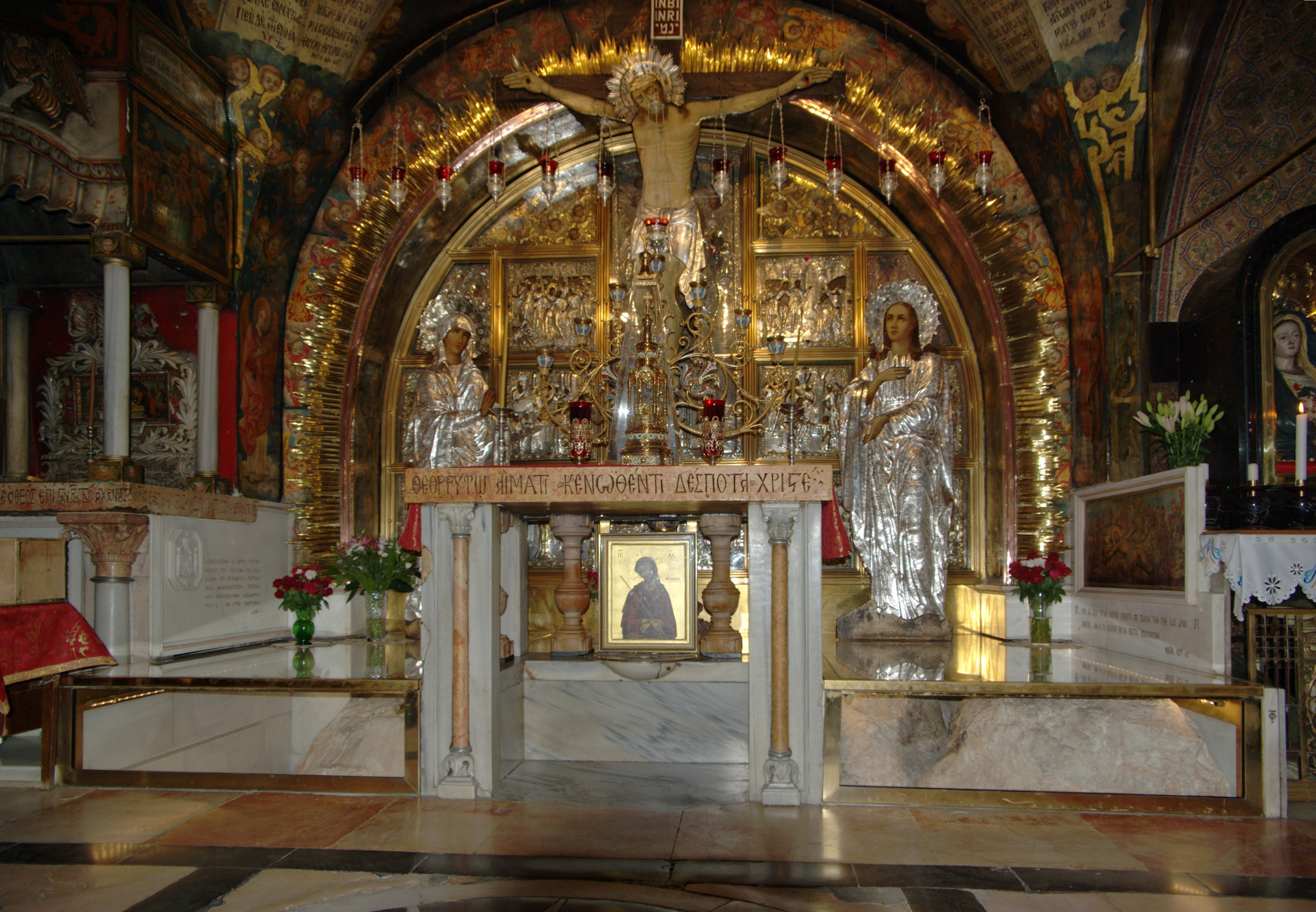 The Holy Sepulchre, on the Golgotha.